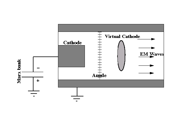 Vircator - Design and Principle.